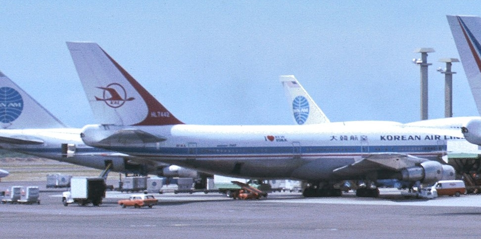 Cropped photograph of Korean Air Lines Flight 007 at Honolulu International Airport.